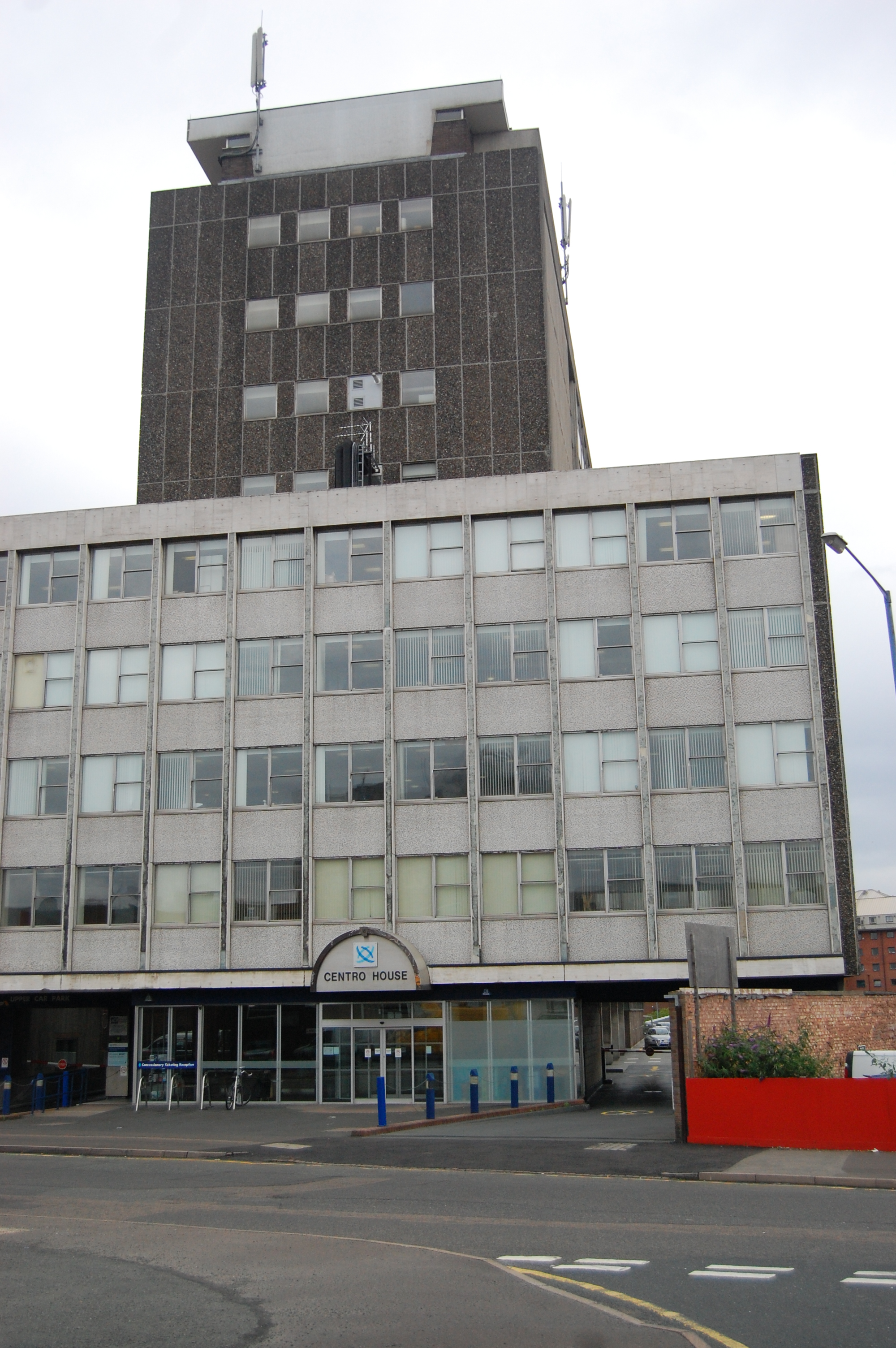 Centro House, headquarters of the West Midlands Passenger Transport Executive, 16 Summer Lane, Birmingham, England (on the site of the first Birmingham General Hospital Object location52° 29′ 14.48″ N, 1° 53′ 58.85″ W